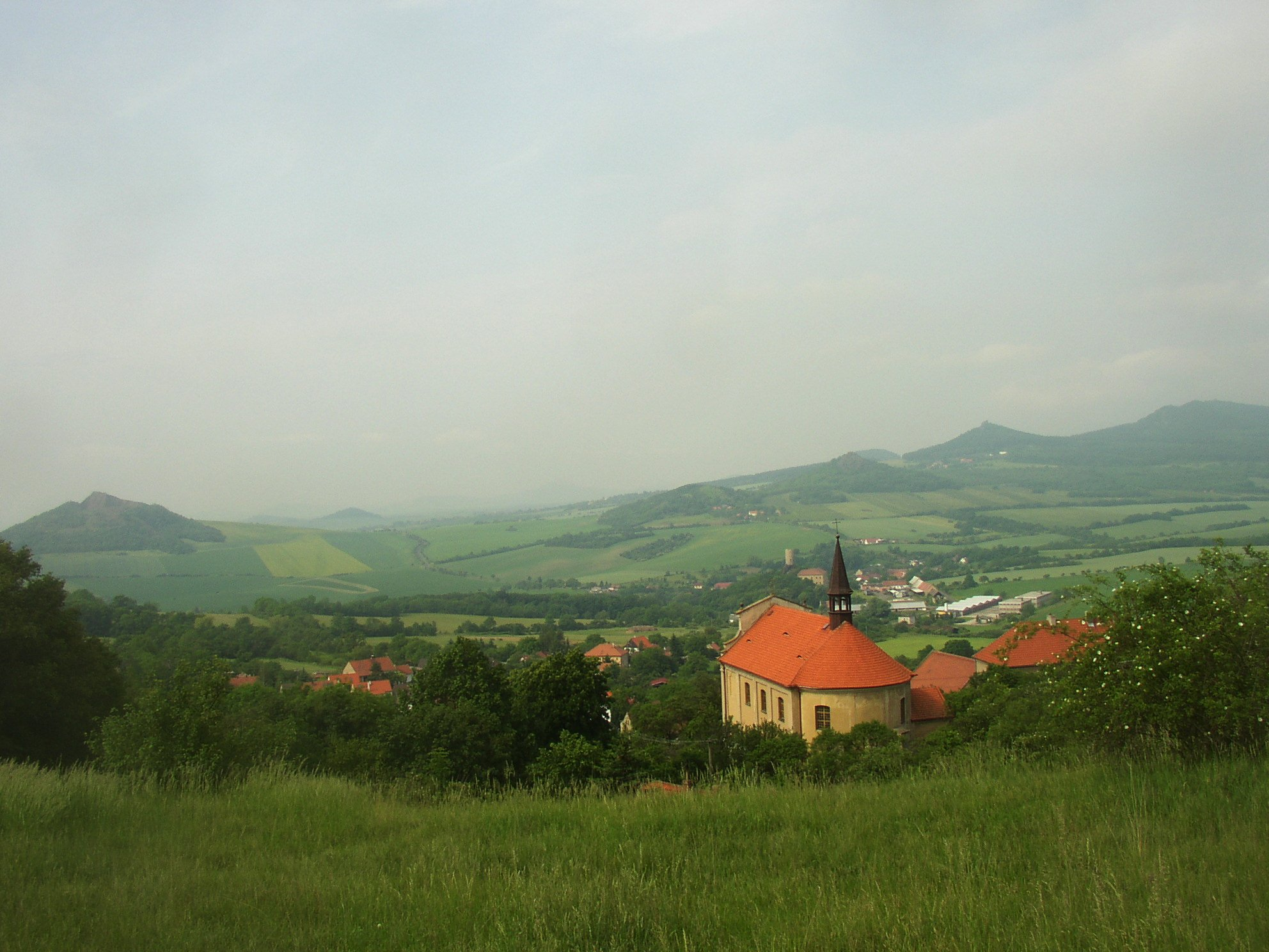 České středhoří, Czech Republic. A view from Sutomský vrch (505 m) towards southwest.